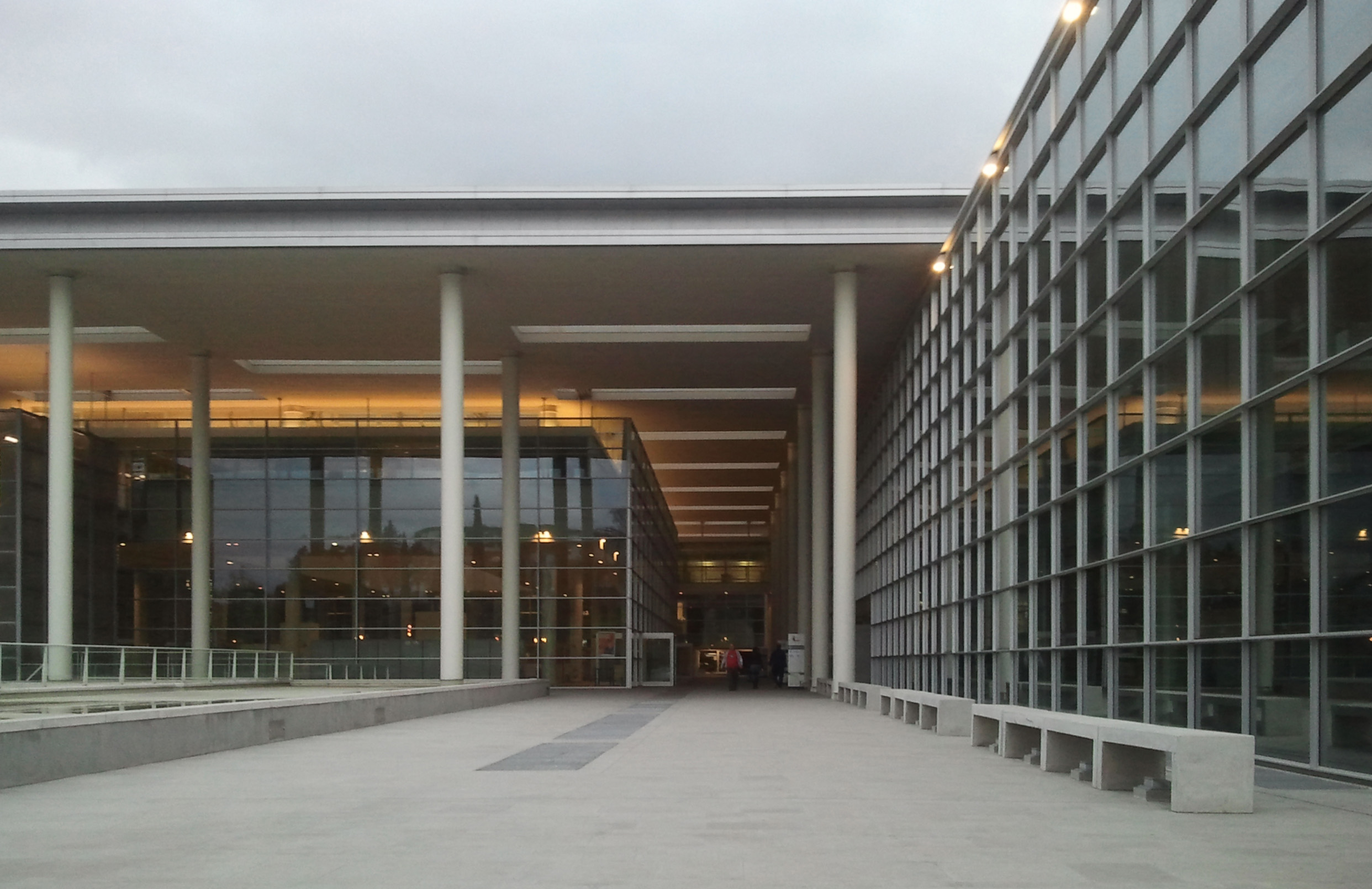 Careggi Hospital - Florence Italy